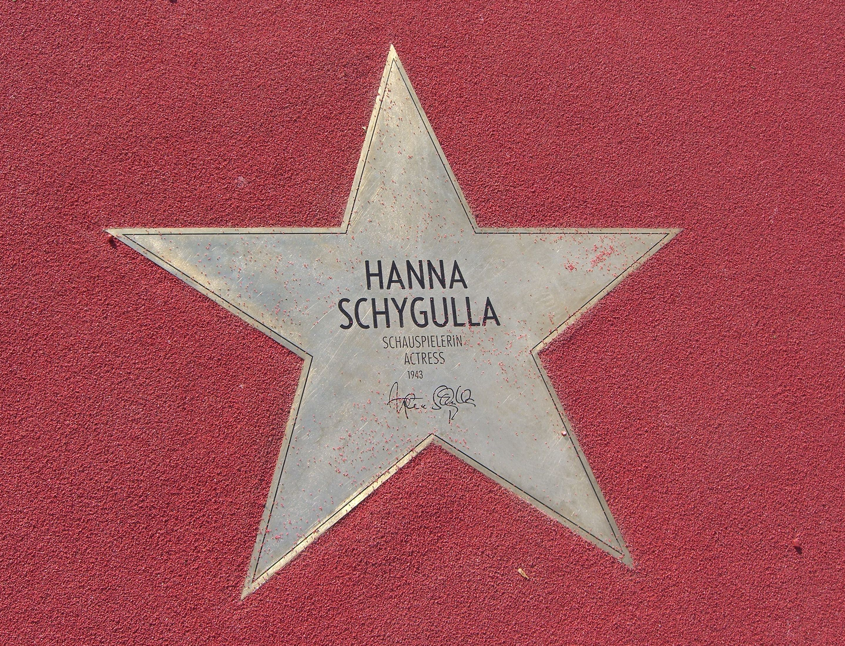 Star of Hanna Schygulla at "Boulevard der Stars" in Berlin.